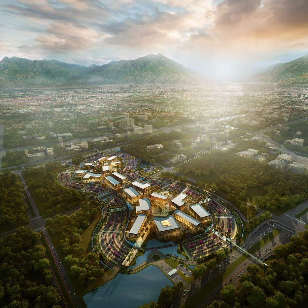 Aerial Perspective of Zonamerica